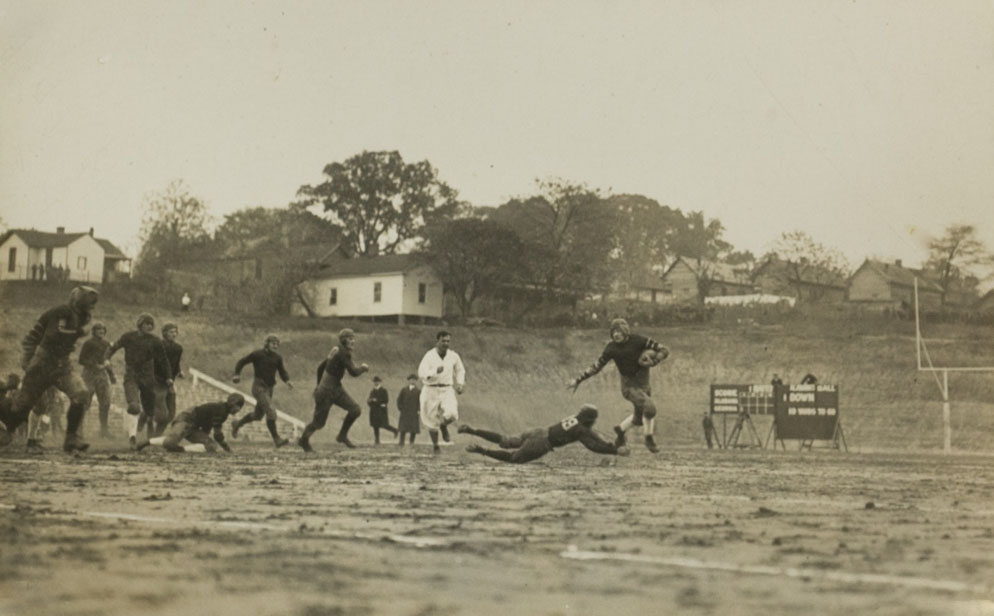 Alabama's Charles Bartlett turns the corner for a 7-yard gain against Georgia in the 1922 game.